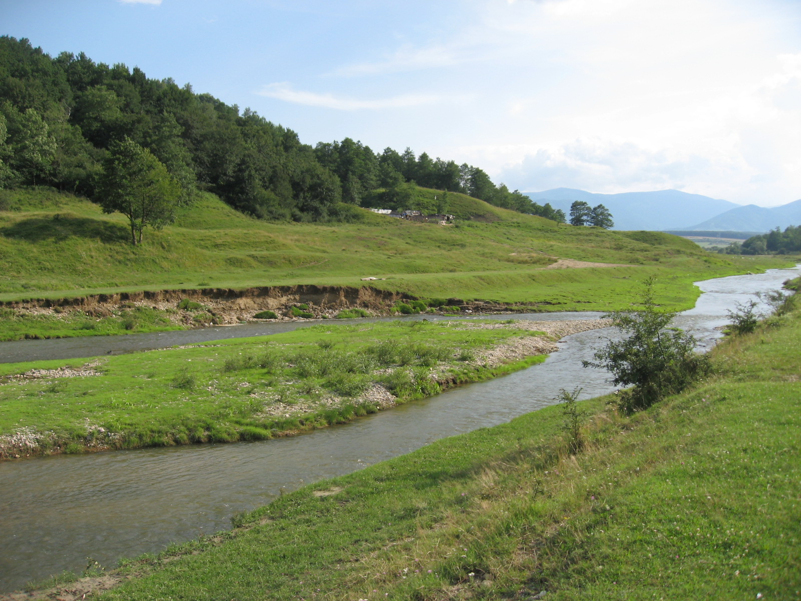 the Hârtibaciu river between the villages Cașolț and Mohu, Sibiu county, Romania